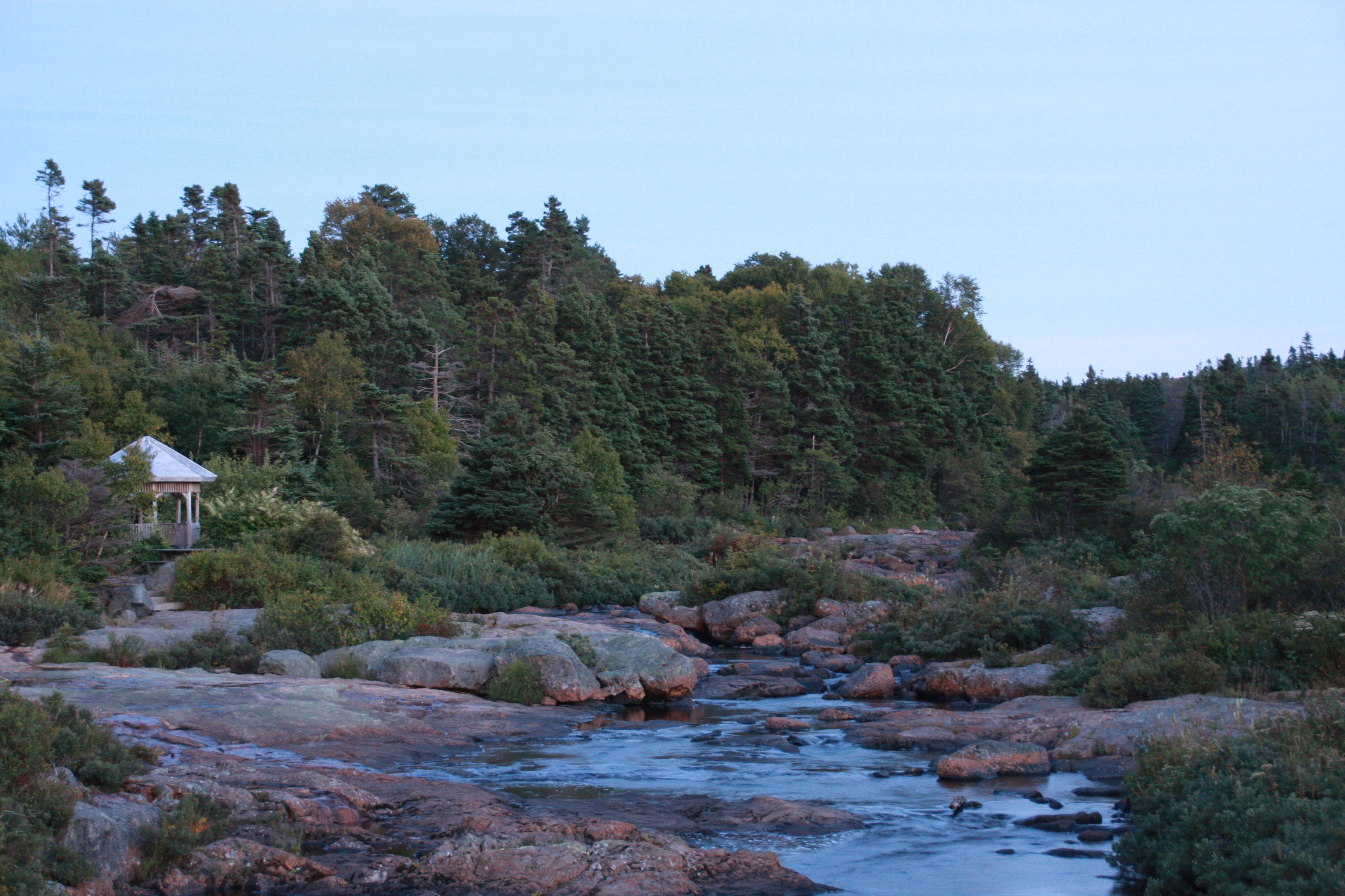 This is one of the views which can be seen from the Manuels River Trail and during the spring run-off is very impressive.